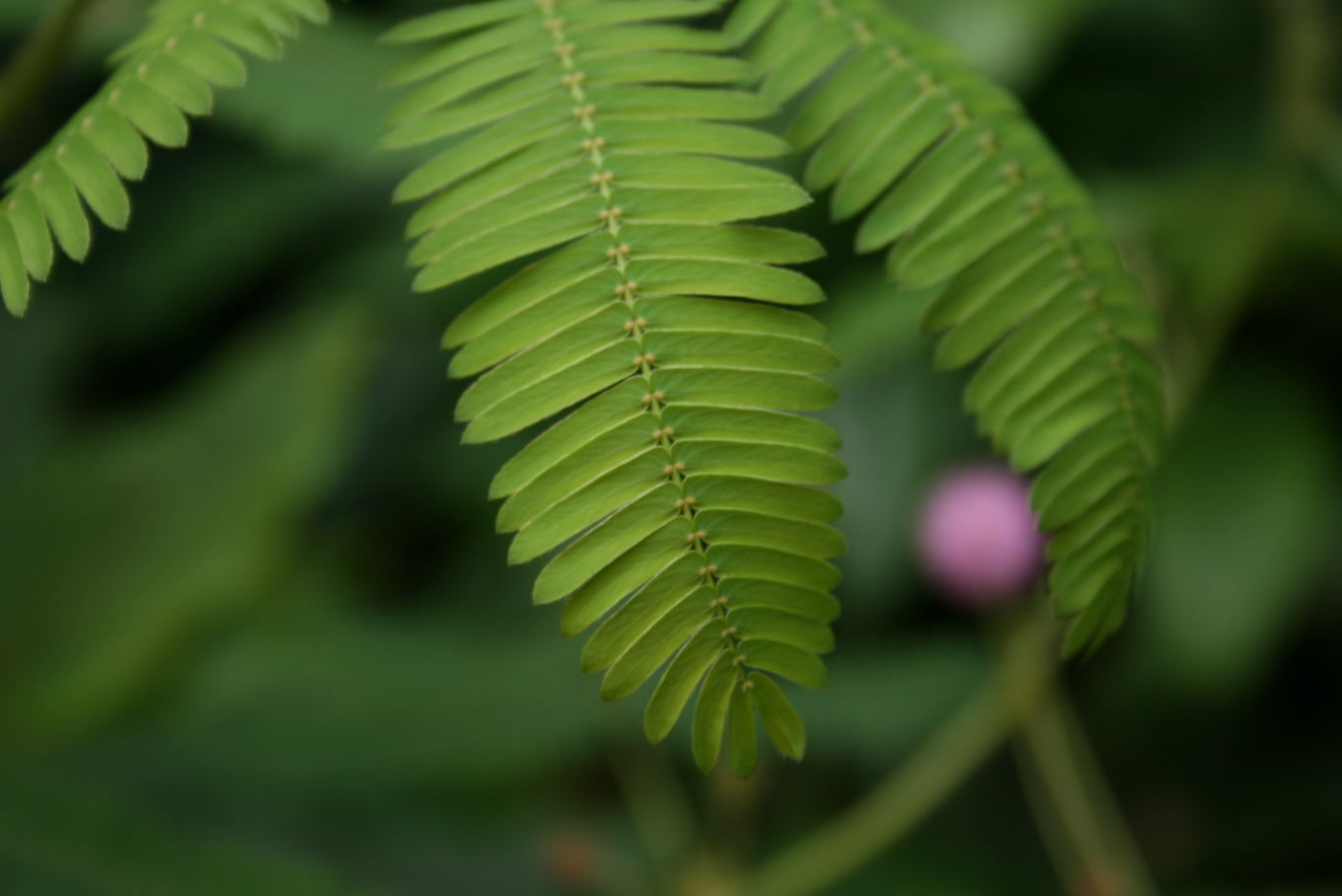 Mimosa pudica: Before touching.